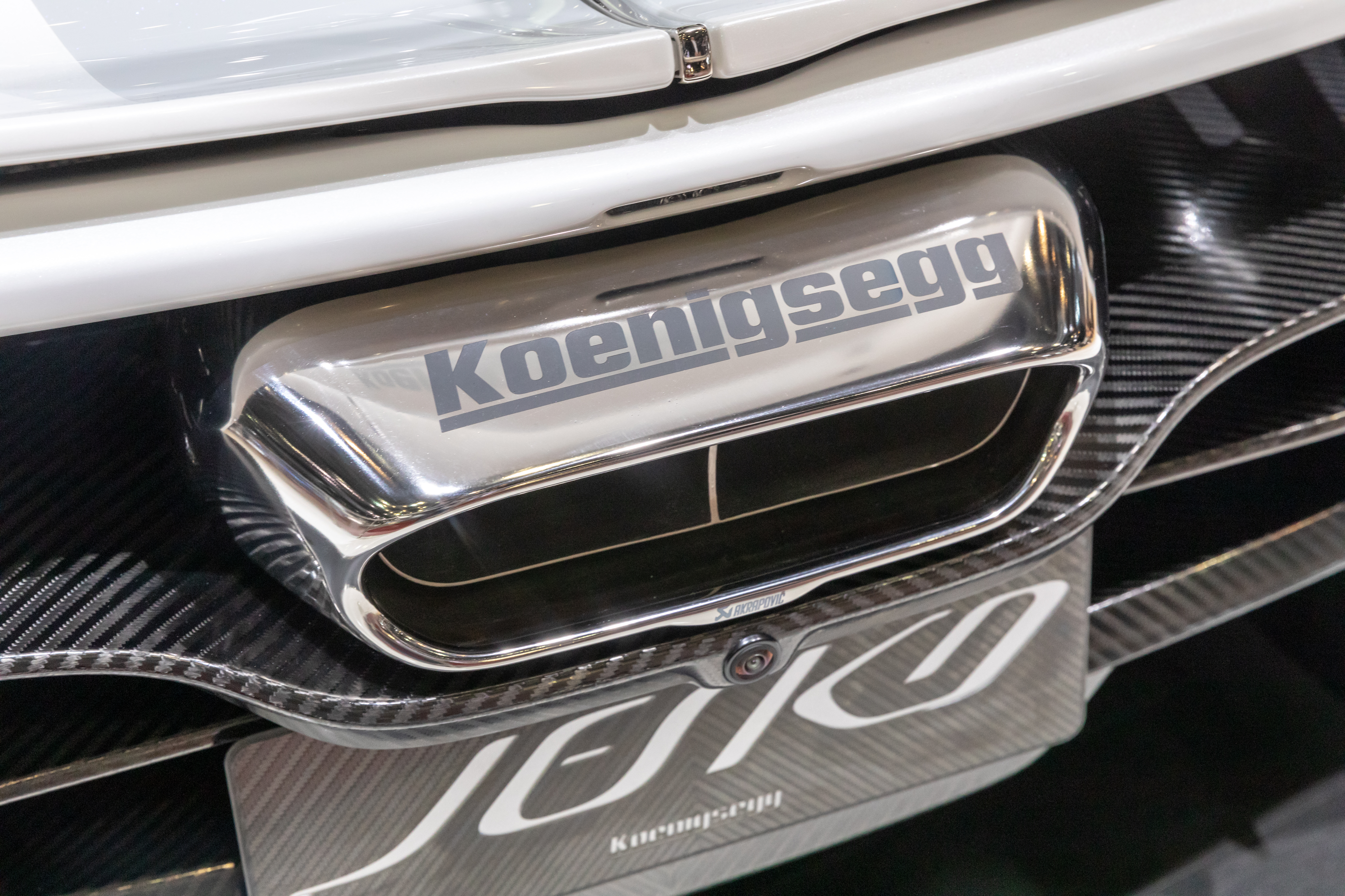 Koenigsegg Jesko at Geneva International Motor Show 2019, Le Grand-Saconnex